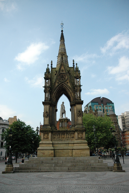 The most prominent statue in Albert Square, Manchester. Taken by Matt Cox on 6th July 2006.